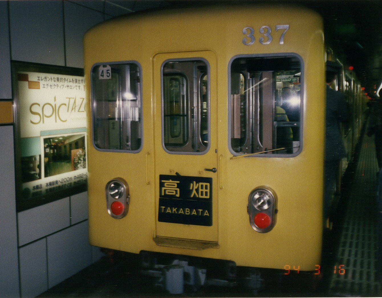 Nagoya municipal subway type 300